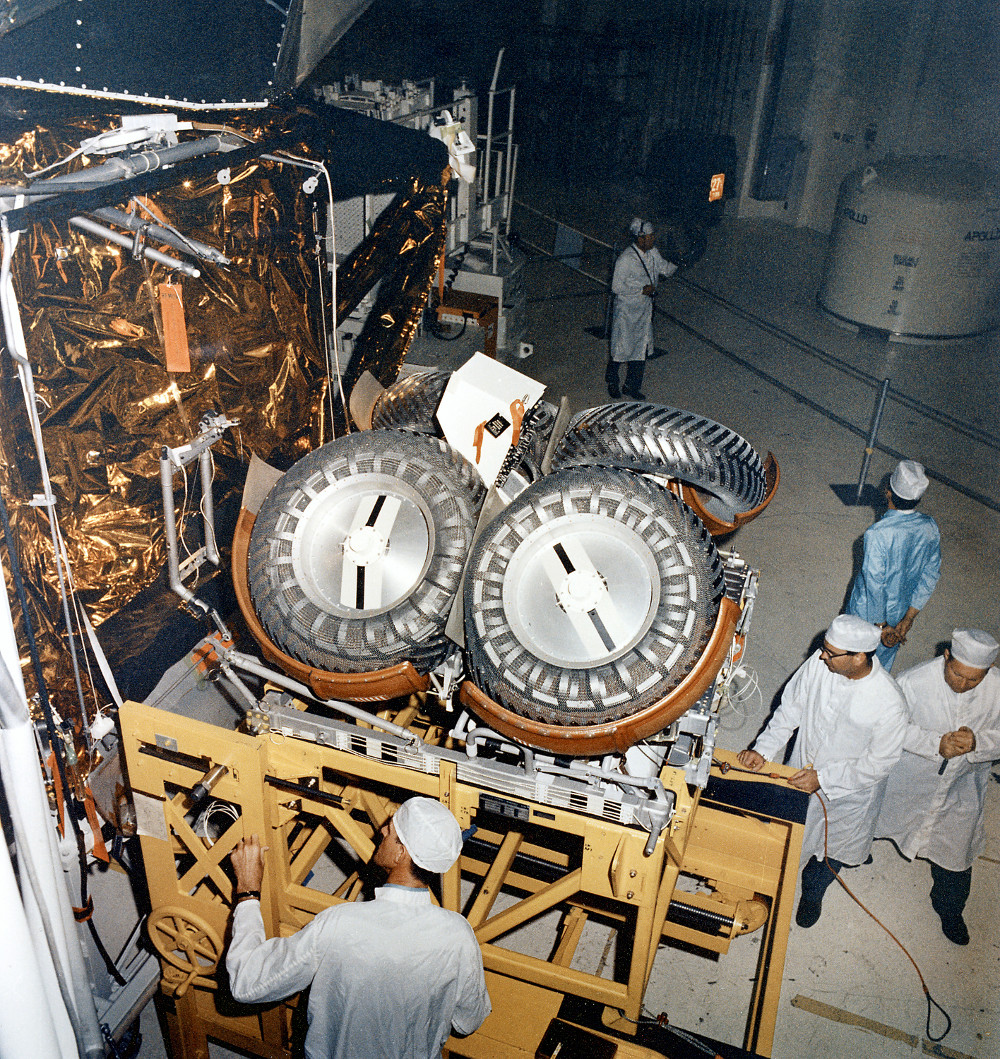 This photograph was taken during the installation of the Lunar Roving Vehicle (LRV) in the Lunar Module at the Kennedy Space Center. The LRV was built to give Apollo astronauts a greater range of mobility during the last three lunar exploration missions; Apollo 15, Apollo 16, and Apollo 17. It was designed and developed by the Marshall Space Flight Center and built by the Boeing Company.